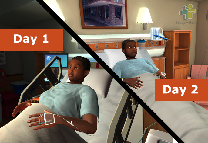 Digital Standardized Patient Tina Jones is cared for over the course of her hospital stay.